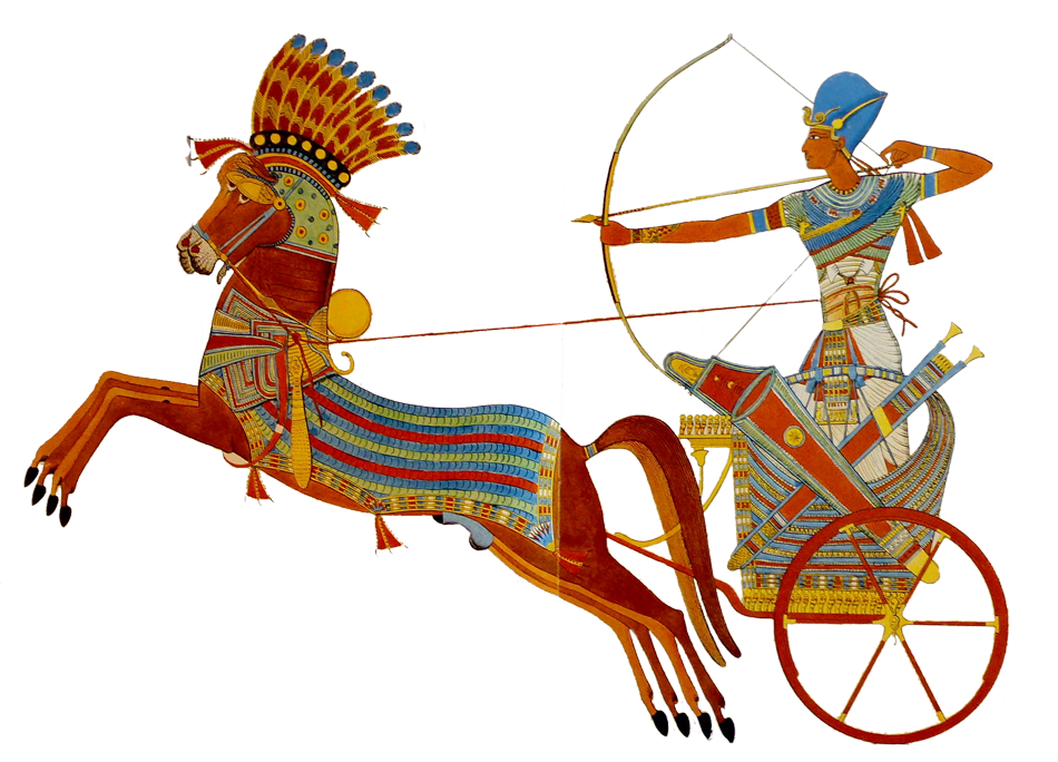 A drawing for Ramesses II from a book